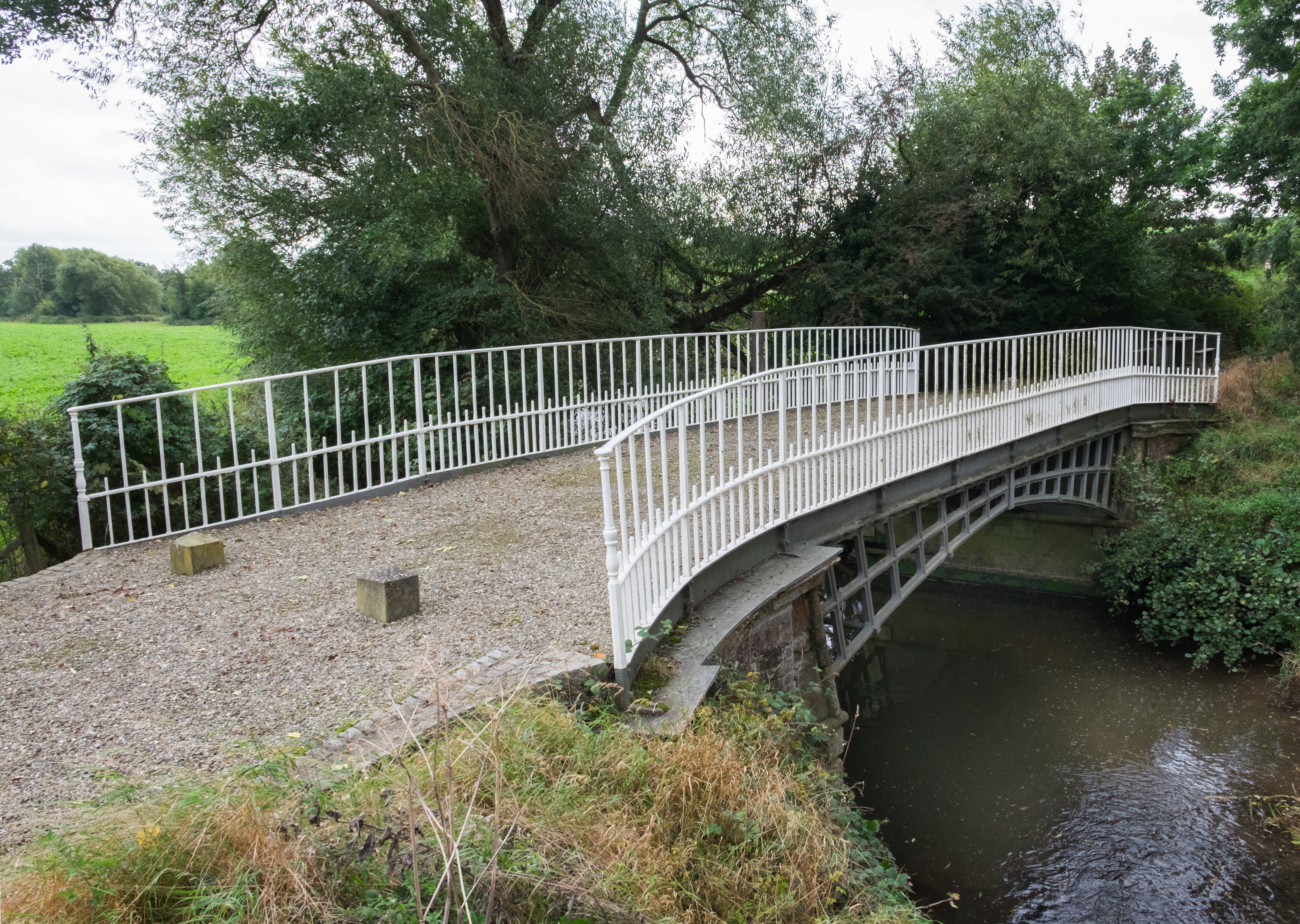 Cantlop Bridge, Shropshire, designed by Thomas Telford and built in 1818. This single-span cast-iron road bridge is a Grade II Listed Building in England.